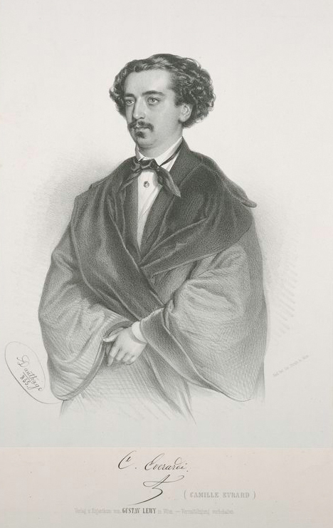 The portrait of Belgian opera singer Camille Everardi, published by Gustav Lewy's agency